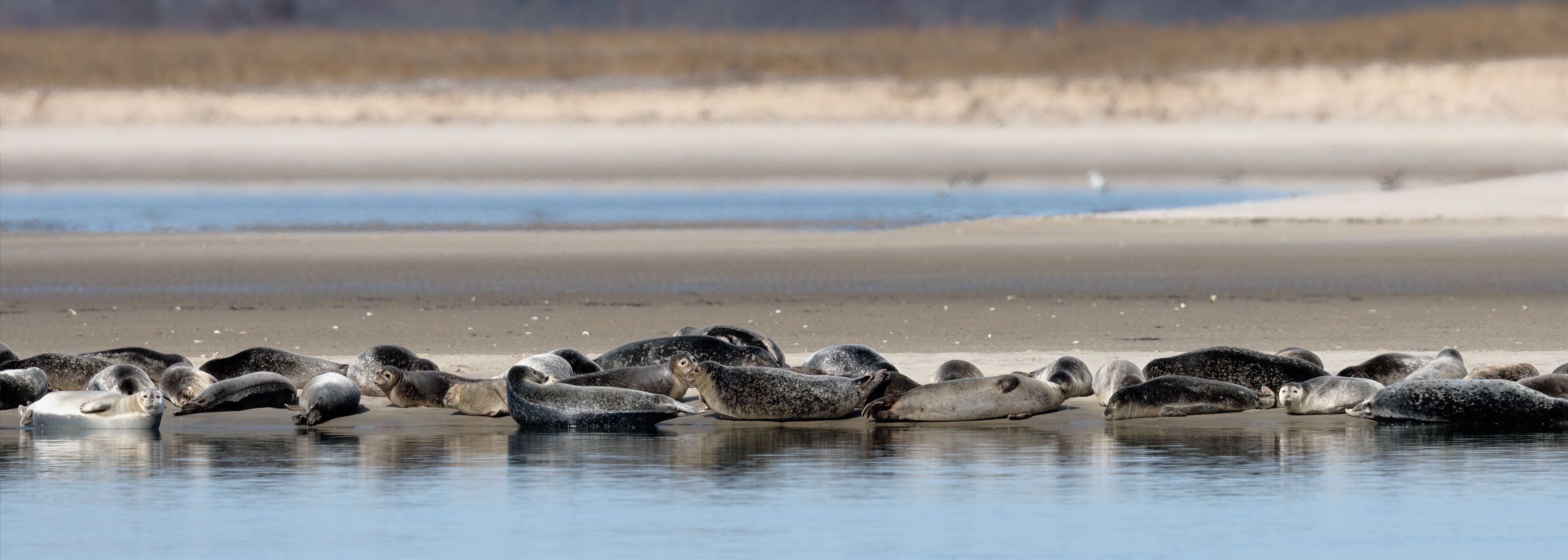 harbor seals - a day at cupsogue beach